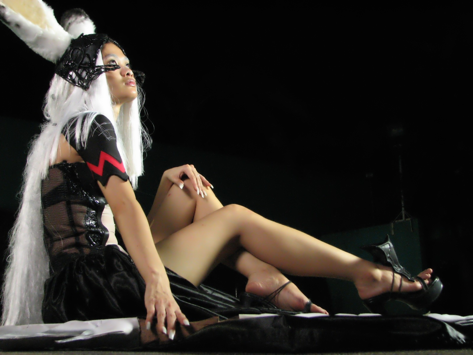 Filipina Cosplayer Jerry Polence plays Fran of Final Fantasy XXII